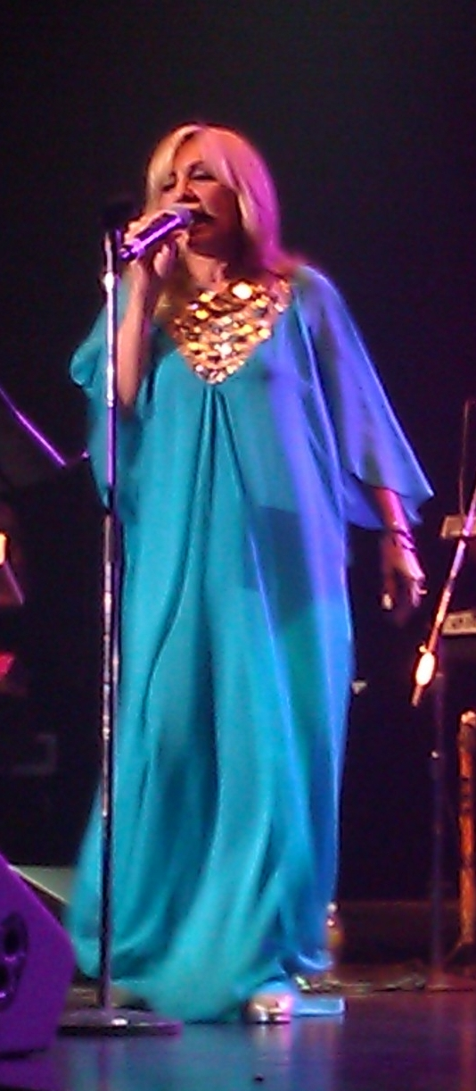 Googoosh in concert, in Flint Center, De Anza College, Cupertino.